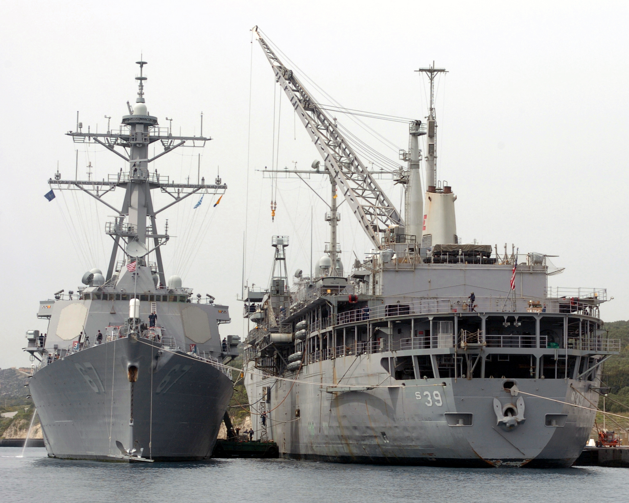 LaMaddalena, Italy (Mar. 27, 2004) – The guided missile destroyer USS Cole (DDG 67) is tied-up along side USS Emory S. Land (AS 39) for maintenance and repairs. Emory S. Land is a forward deployed submarine tender homeported in LaMaddalena, Italy, that provides logistical support and repairs to all Sixth Fleet surface and submarine assets. U.S. Navy photo by Photographer's Mate Airman Wesley Marquis. (RELEASED)